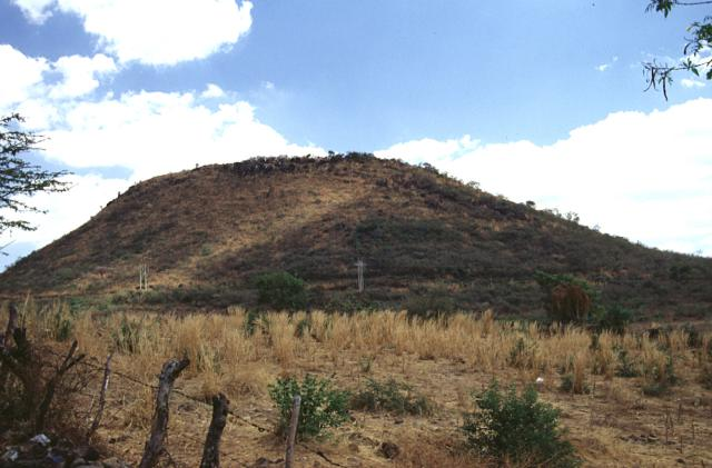 Volcán Culma, a lava cone of Cerro Santiago volcanic field in Guatemala. Smithsonian Institution is administered by the U.S. government. Photos taken by Smithsonian Institution's employees are thus without restriction. (confirmed by Mr. Edward Venzke from Smithsonian Institution)